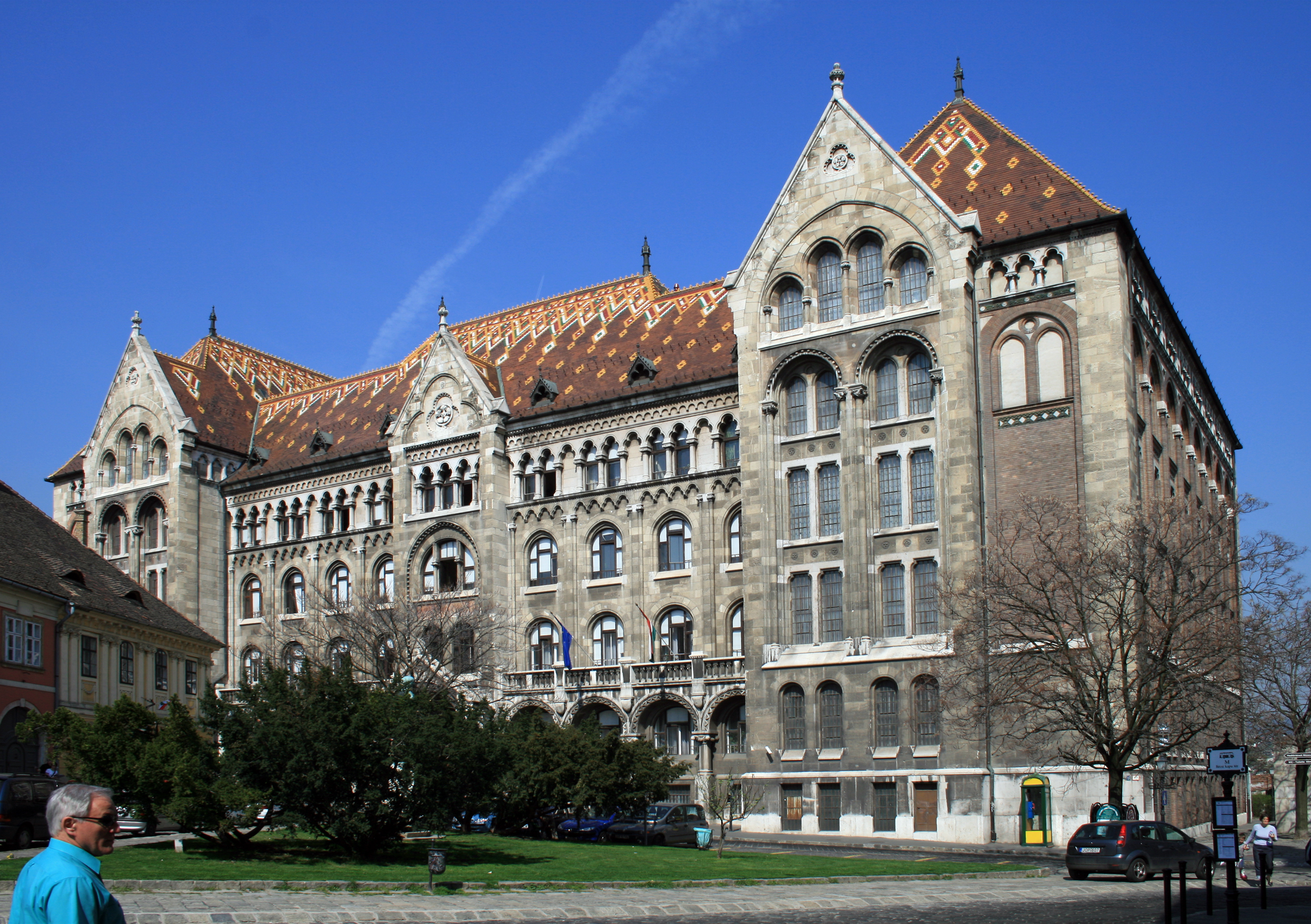 State Archiv of Hungary in the Castle of Buda, Budapest, Hungary